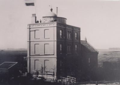 Watum Lighthouse, just a few years befor the war